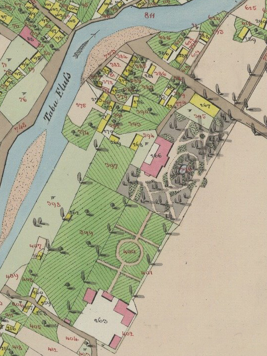 Manor house in Rymanów on a map from 1851